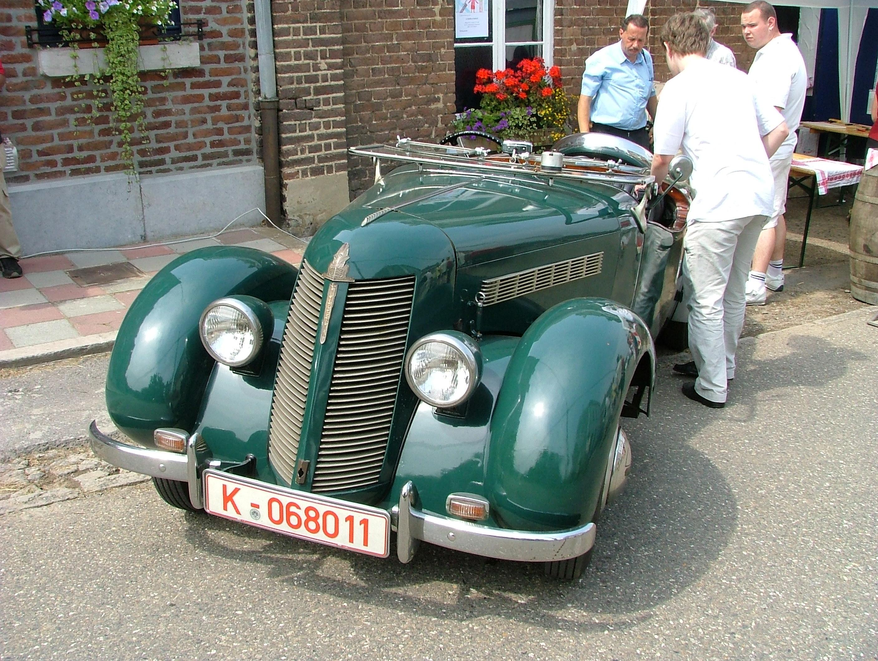 Imperia TA-8 Sport produced between 1947 and 1949